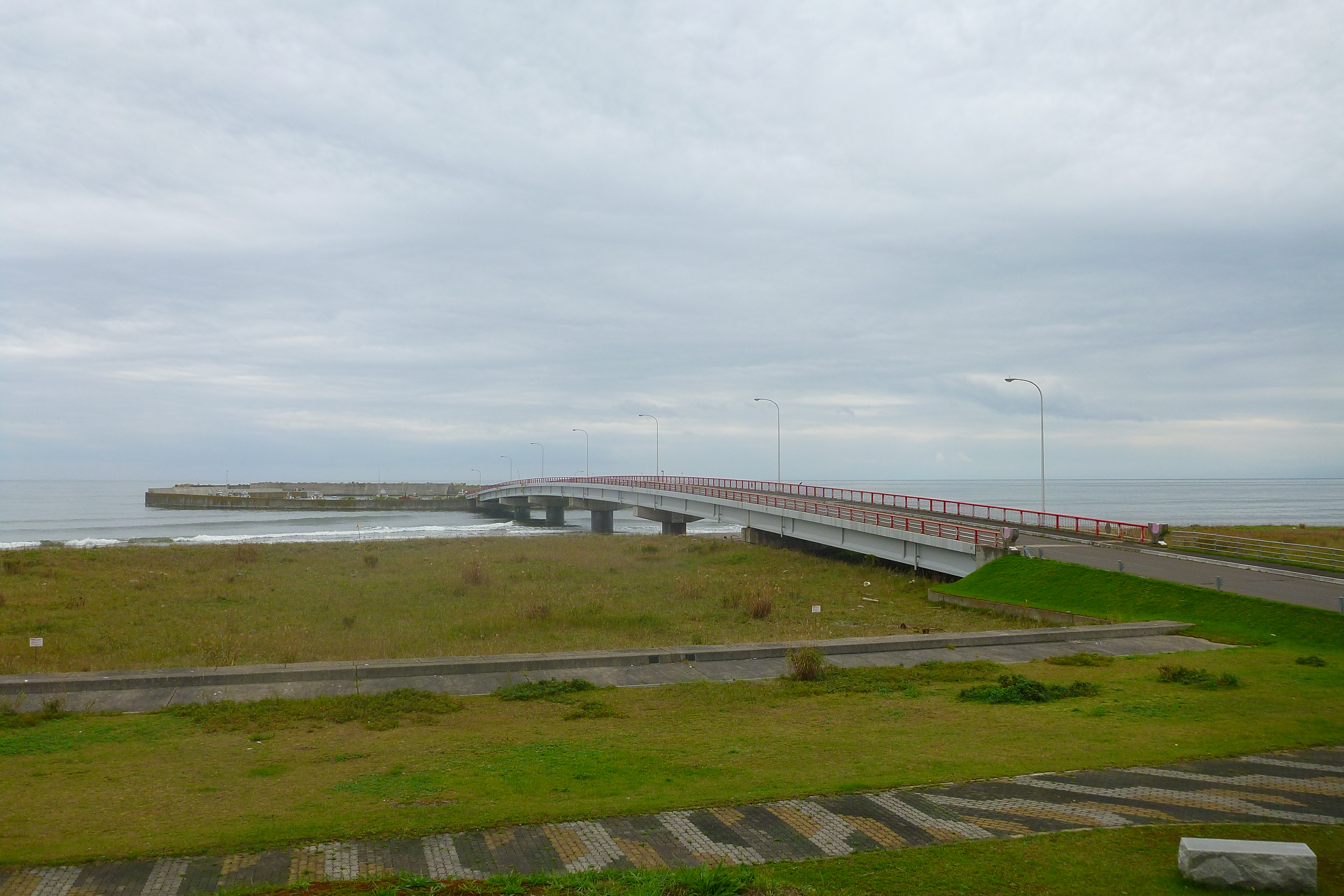 Kunnui Fishing Port seen from the park nearby